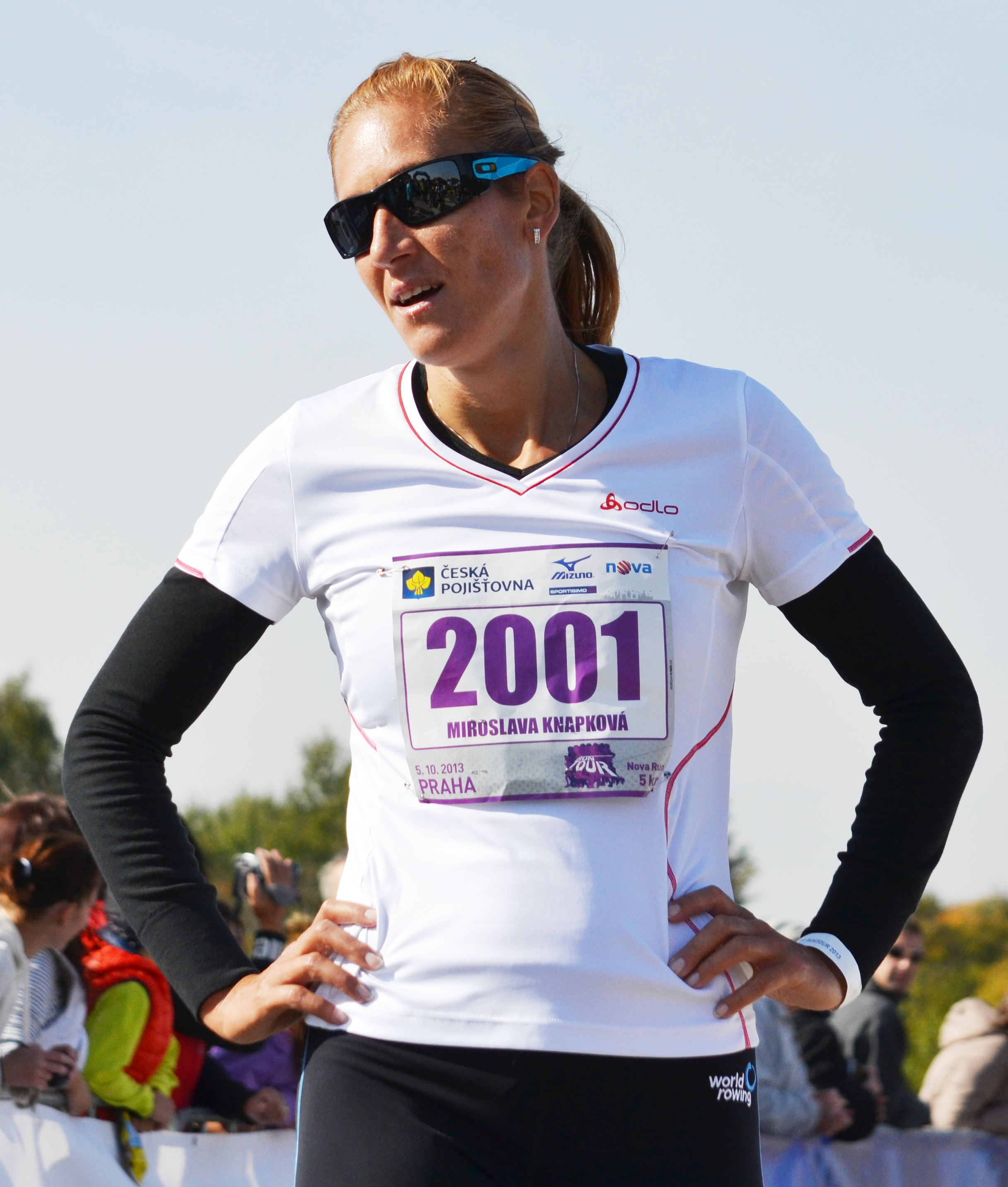 Miroslava Topinková Knapková, Czech rower